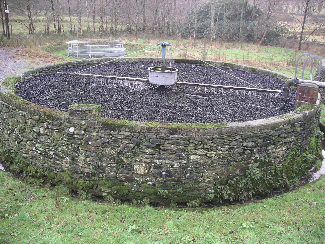 Sewage treatment trickling filter bed using plastic media – small rural treatment plant at Beddgelert sewage treatment works, Gwynedd, Wales, UK.